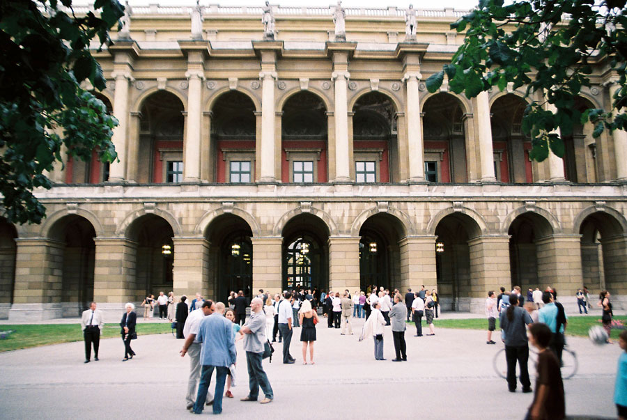 HerkulessaalConcert Hall in the Residence, MunichFacade towards the “Hofgarten” (the castle 's garden)